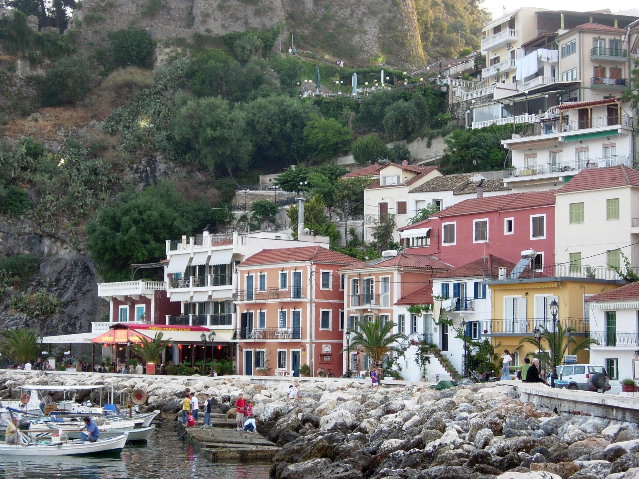 As the Sun sets down, people come to restaurants and the lights are lit. Parga.